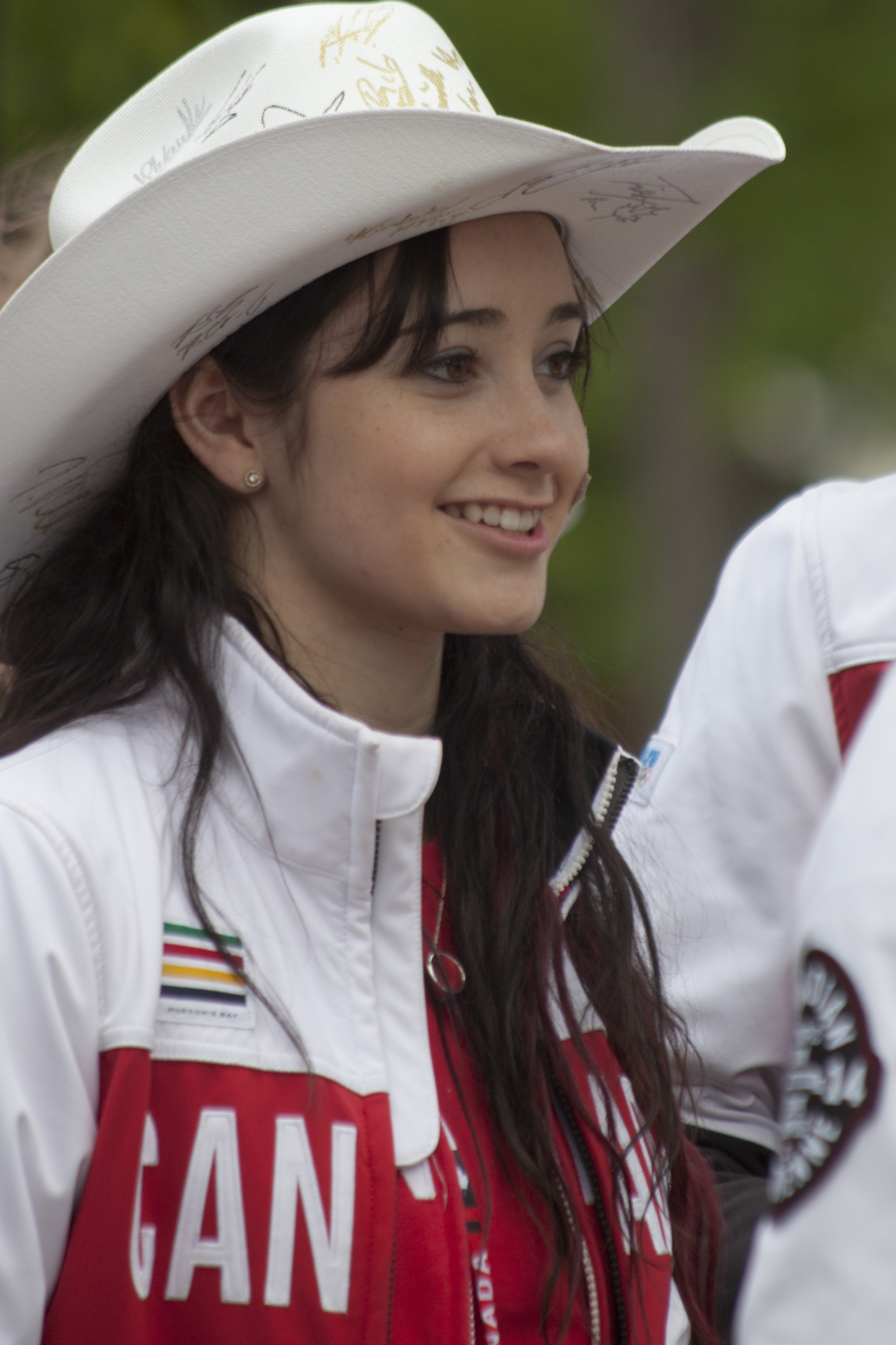 Kaetlyn Osmond after the Parade of Champions in downtown Calgary on June 6, 2014. Image has been cropped.